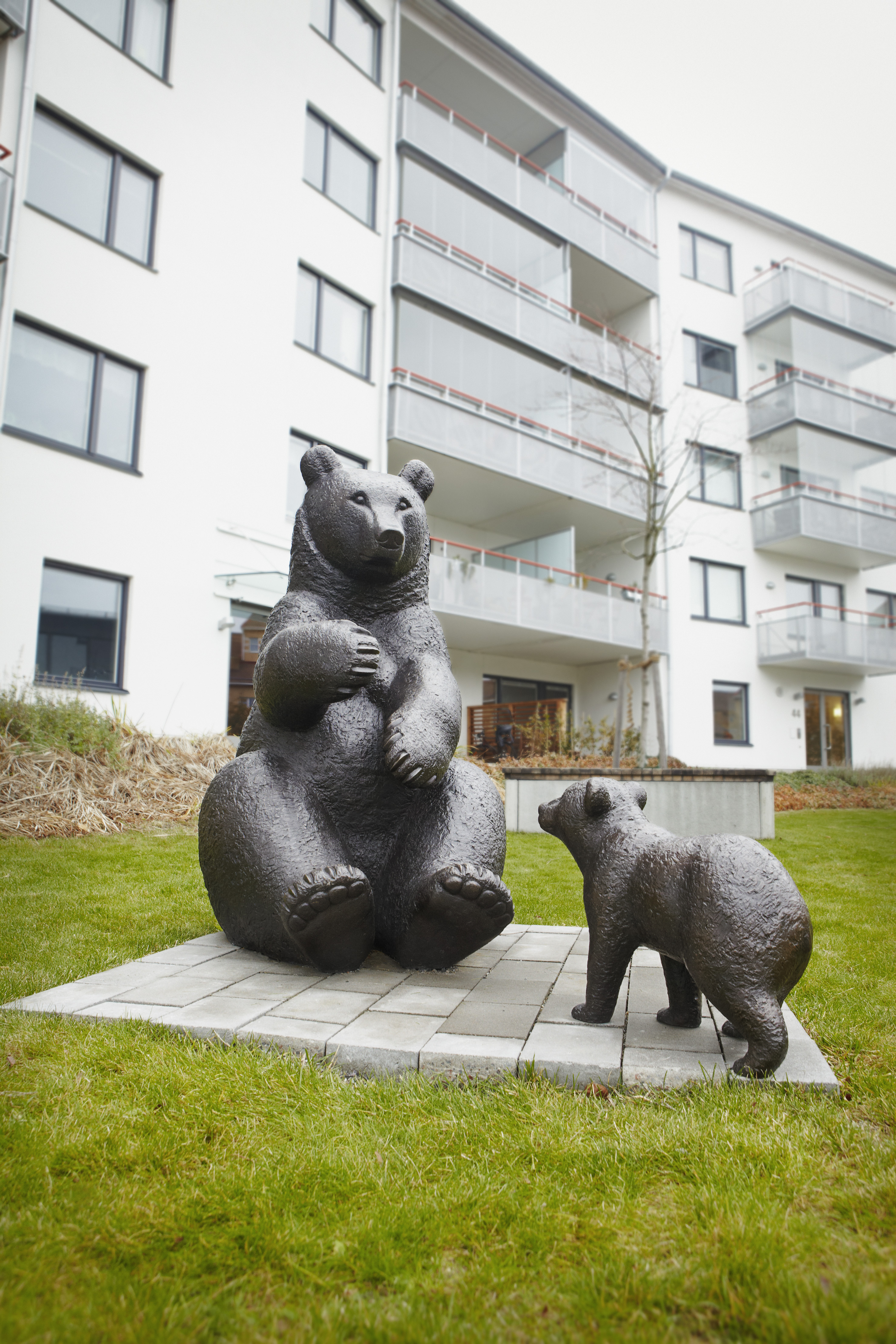 Bear